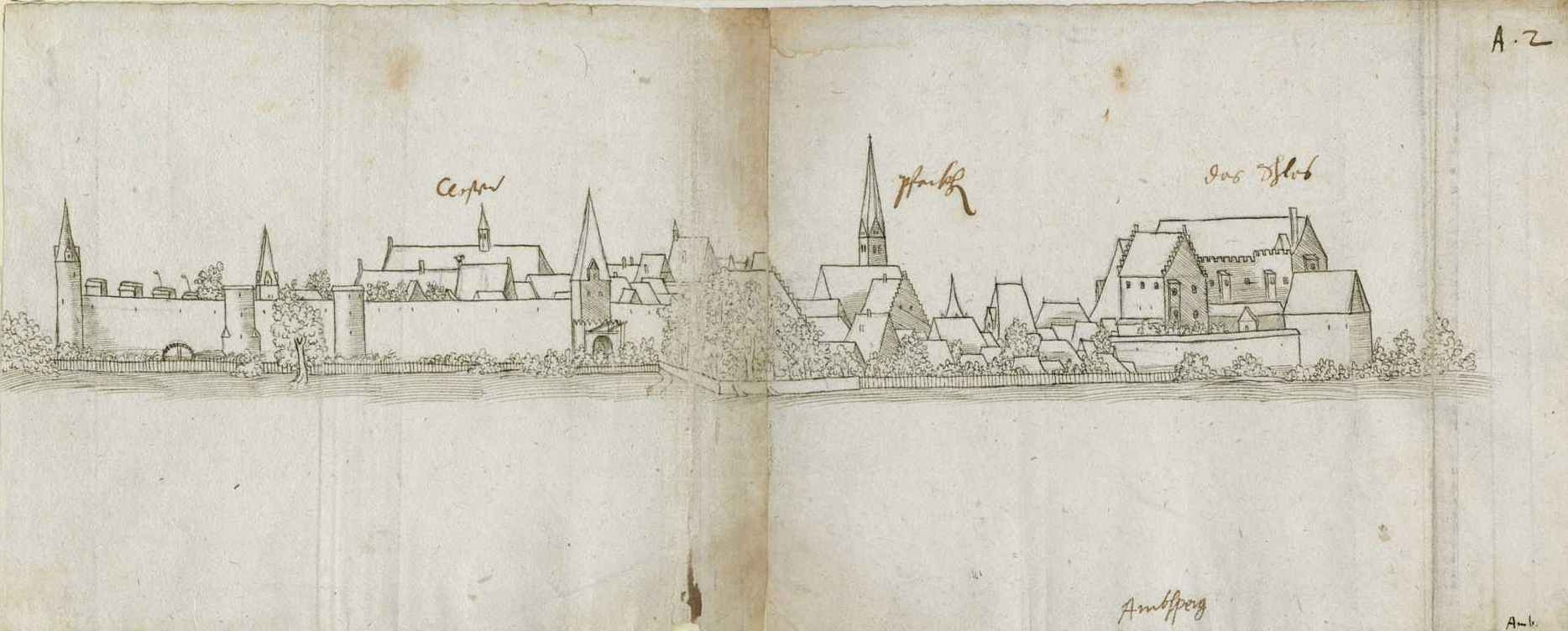 Drawing of teh bavarian town Abensberg from the 16. century.